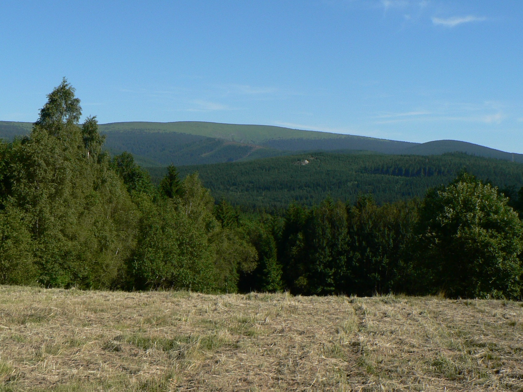 Vysoka hole with Velka kotlina, Hruby Jesenik, Czech republic.